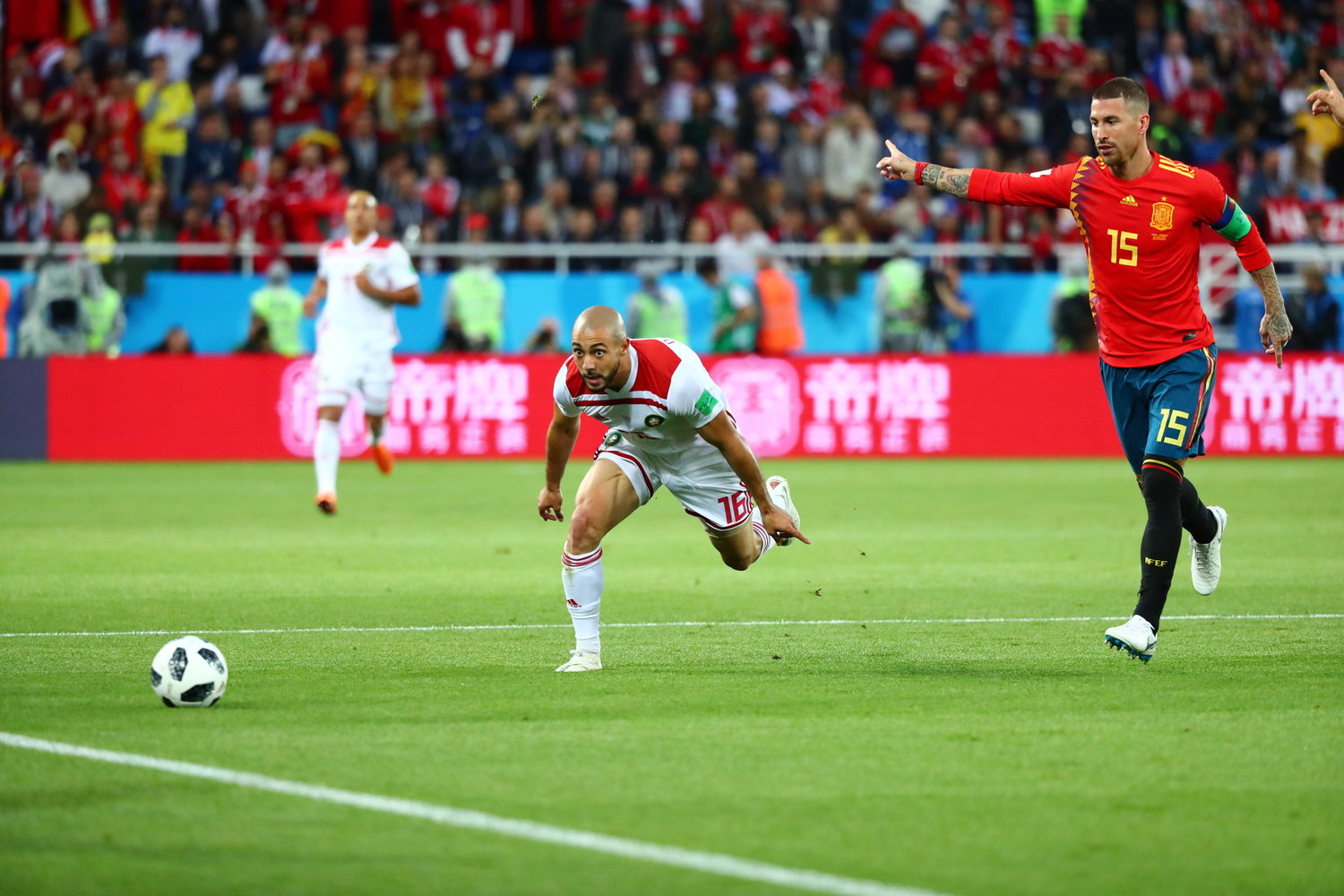 Spain-Morocco match, Group B, 2018 FIFA World Cup